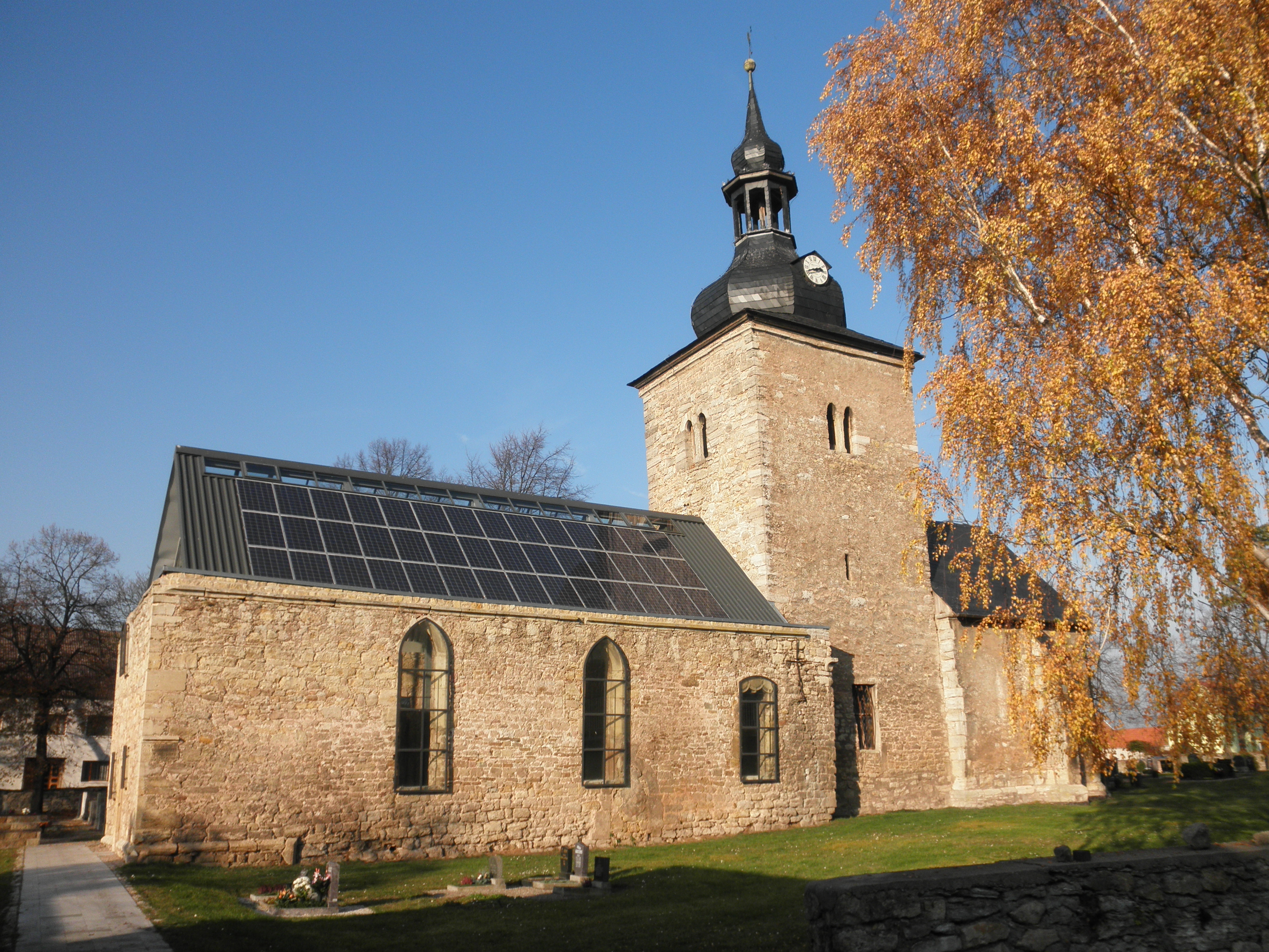 Church in Frömmstedt in Thuringia